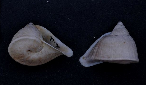 Shell of Cochlorina lateralis (Menke, 1828), from Brazil (Brazilië in the description).